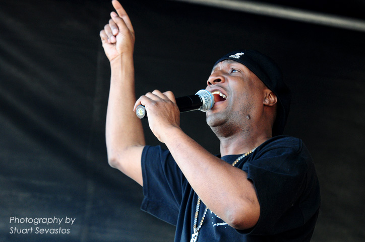 Grandmaster Flash @ Wellington Square (1/3/2009)